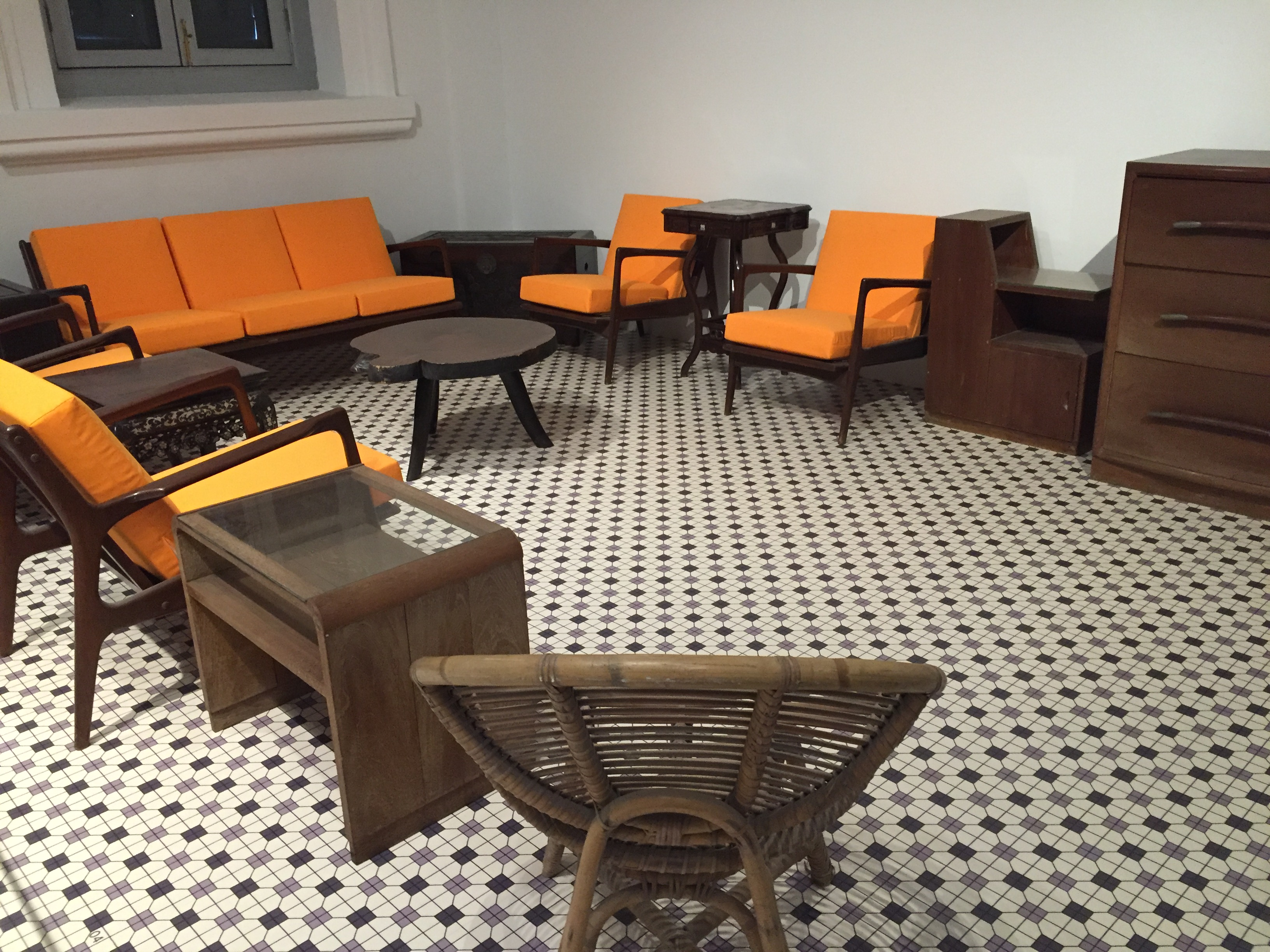 Furniture belonging to former Prime Minister of Singapore Lee Kuan Yew and his wife Kwa Geok Choo from their home at 38 Oxley Road donated to the National Museum of Singapore.